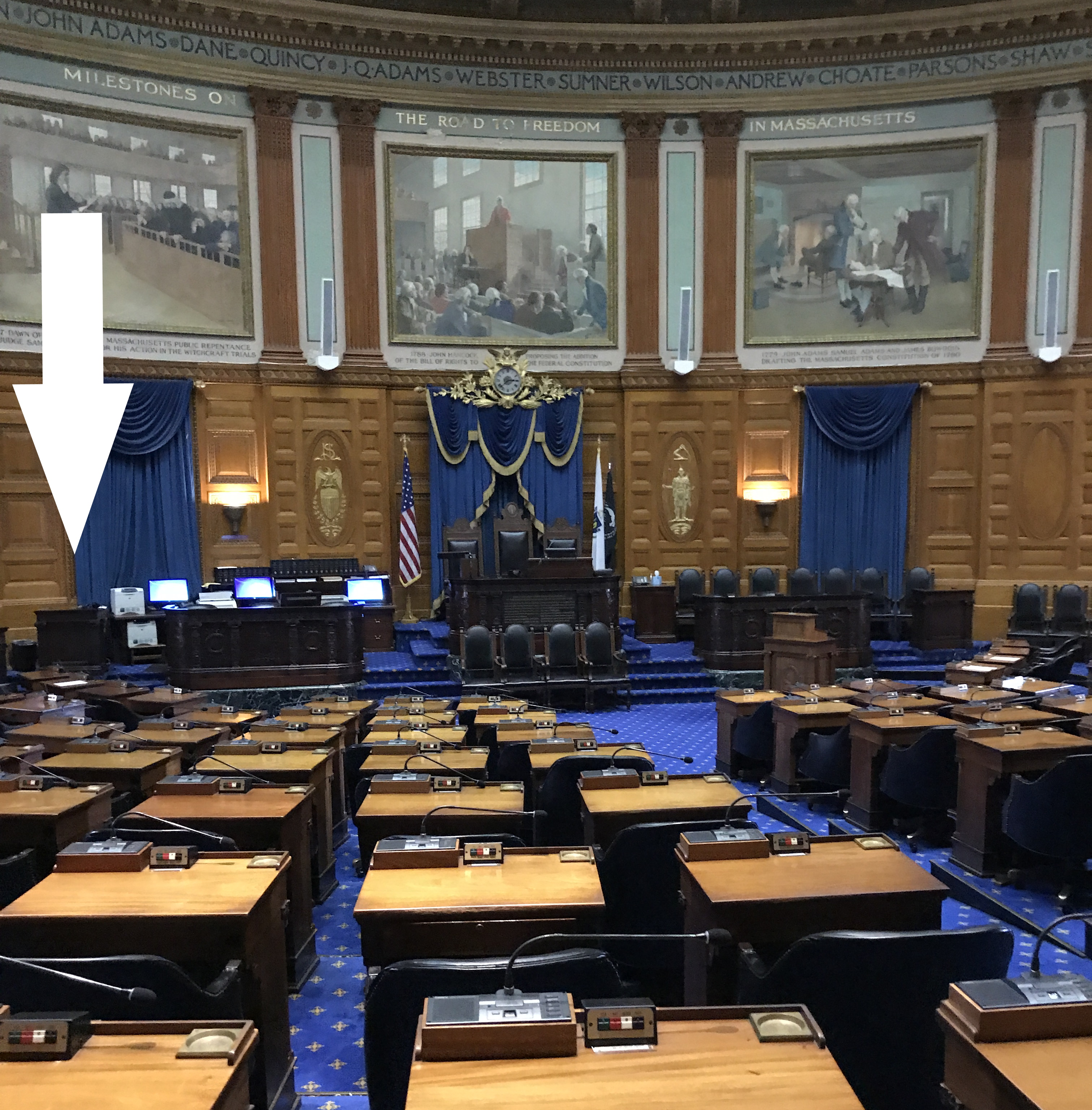 Added an arrow to existing photo to highlight desk